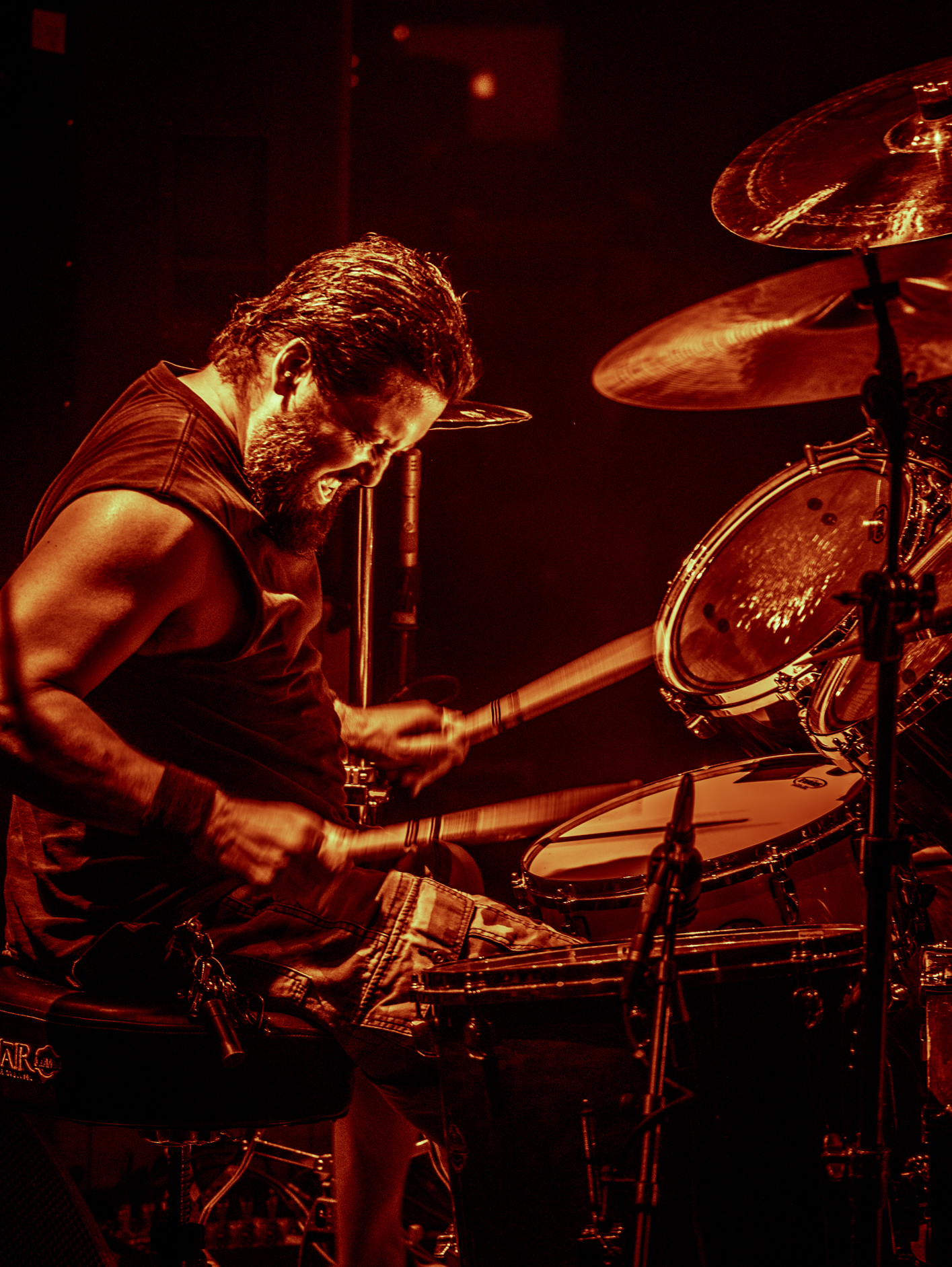 Des with High on Fire, 2016